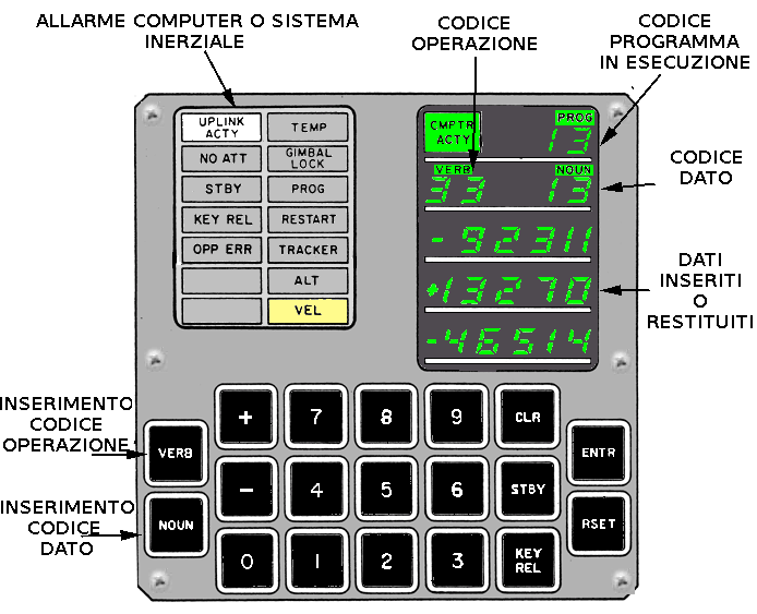 Apollo programm : Display and Keyboard (DSKY) of the Primary Guidance System (french comments